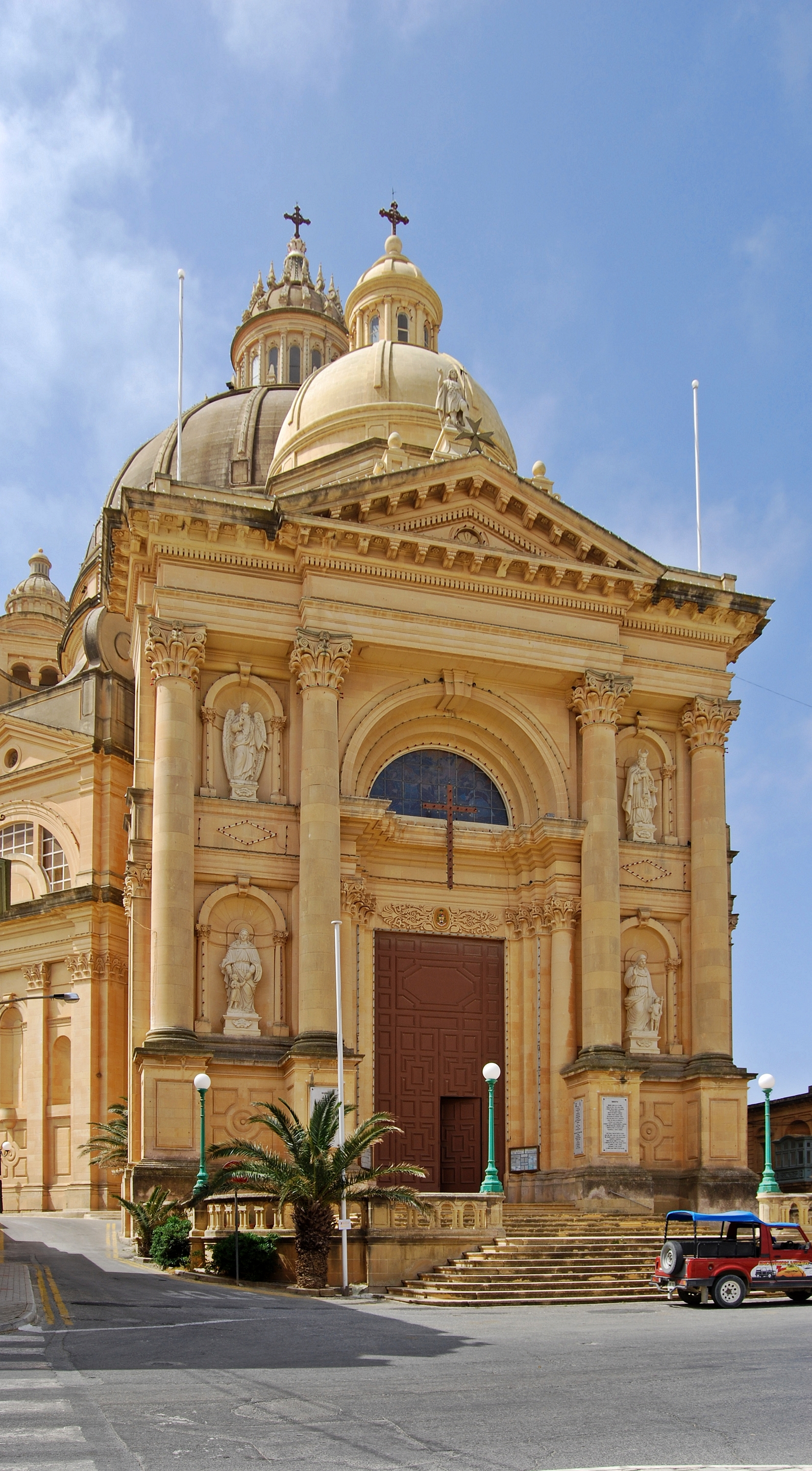 Rotunda St. John The Baptist in Xewkija, Gozo, Malta.